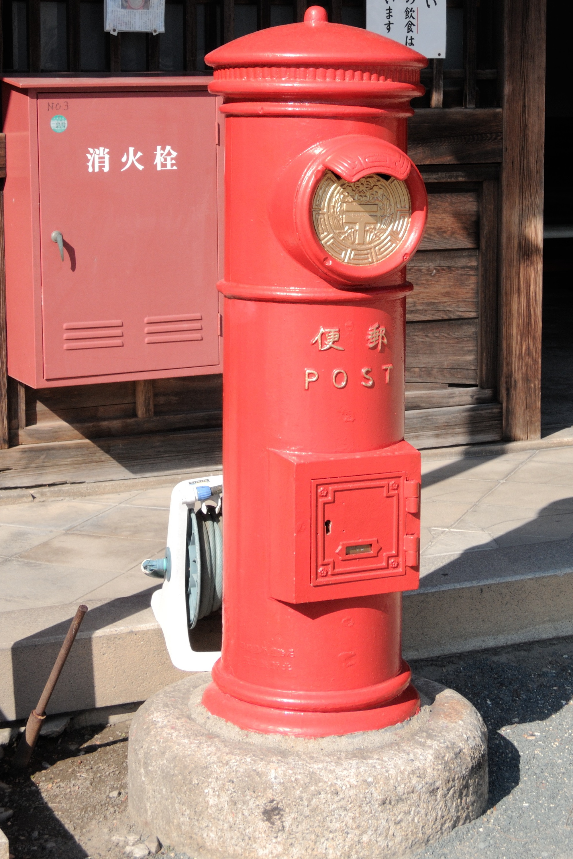 Post box in Toyokawa Inari,Aichi prefecture,Japan